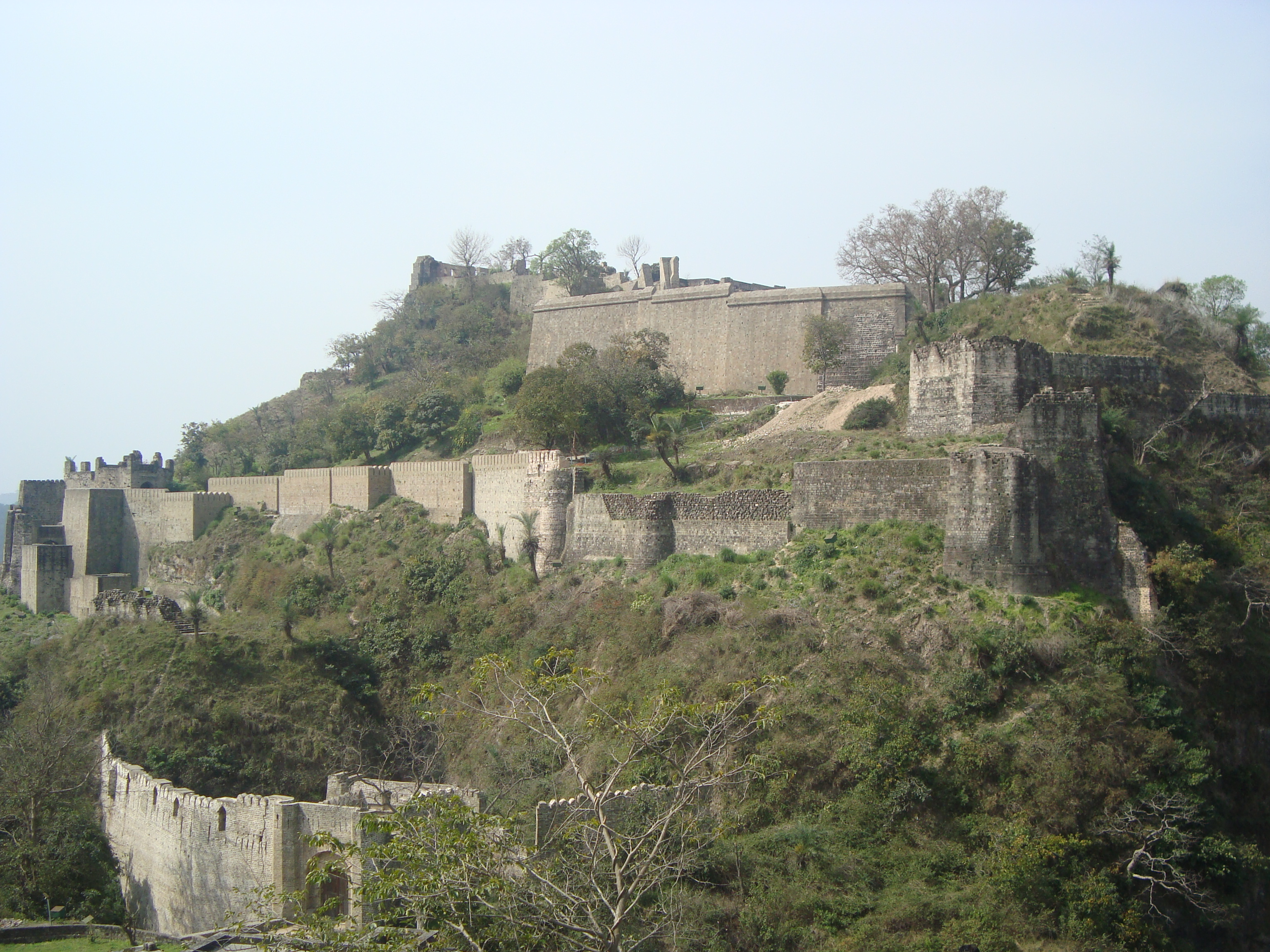 Kangra Fort as seen from Maharaja Sansar Chandra Museum